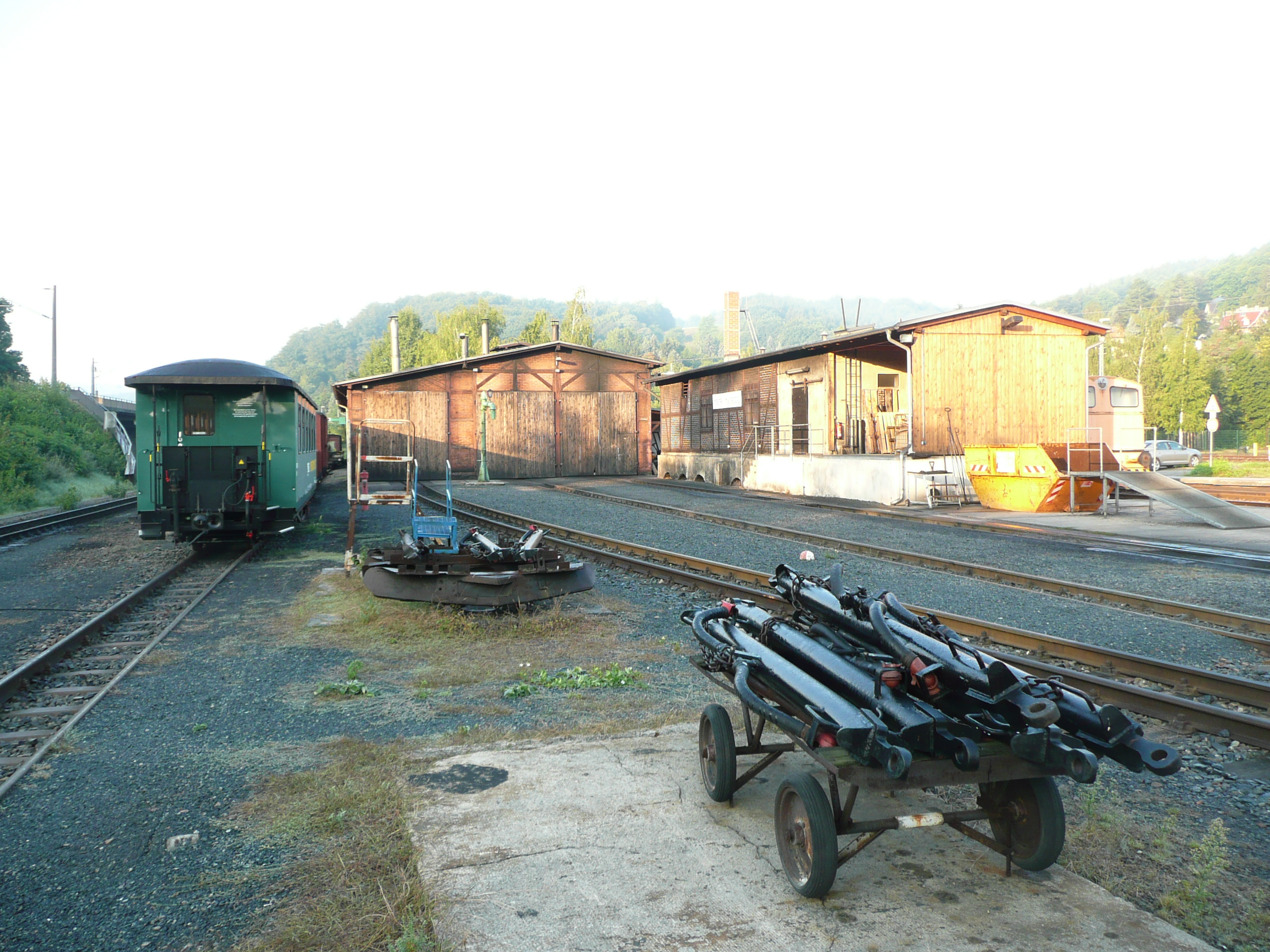 Engine shed for housing and maintenance of 750mm (2ft 5½in) gauge steam locomotives of the Weißeritz Valley Railway in Freital-Hainsberg. An extension is going to be attached in 2017/18; the foundation draws close to completion.